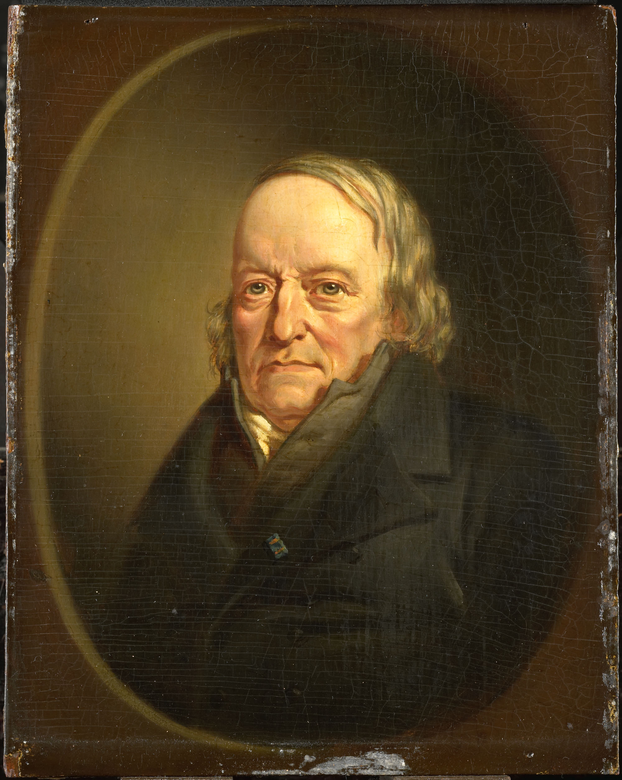 Johannes Kinker (1764-1845), Dutch poet & professor in Liege (Belgium). Collection Rijksmuseum Amsterdam, SK-A-2874